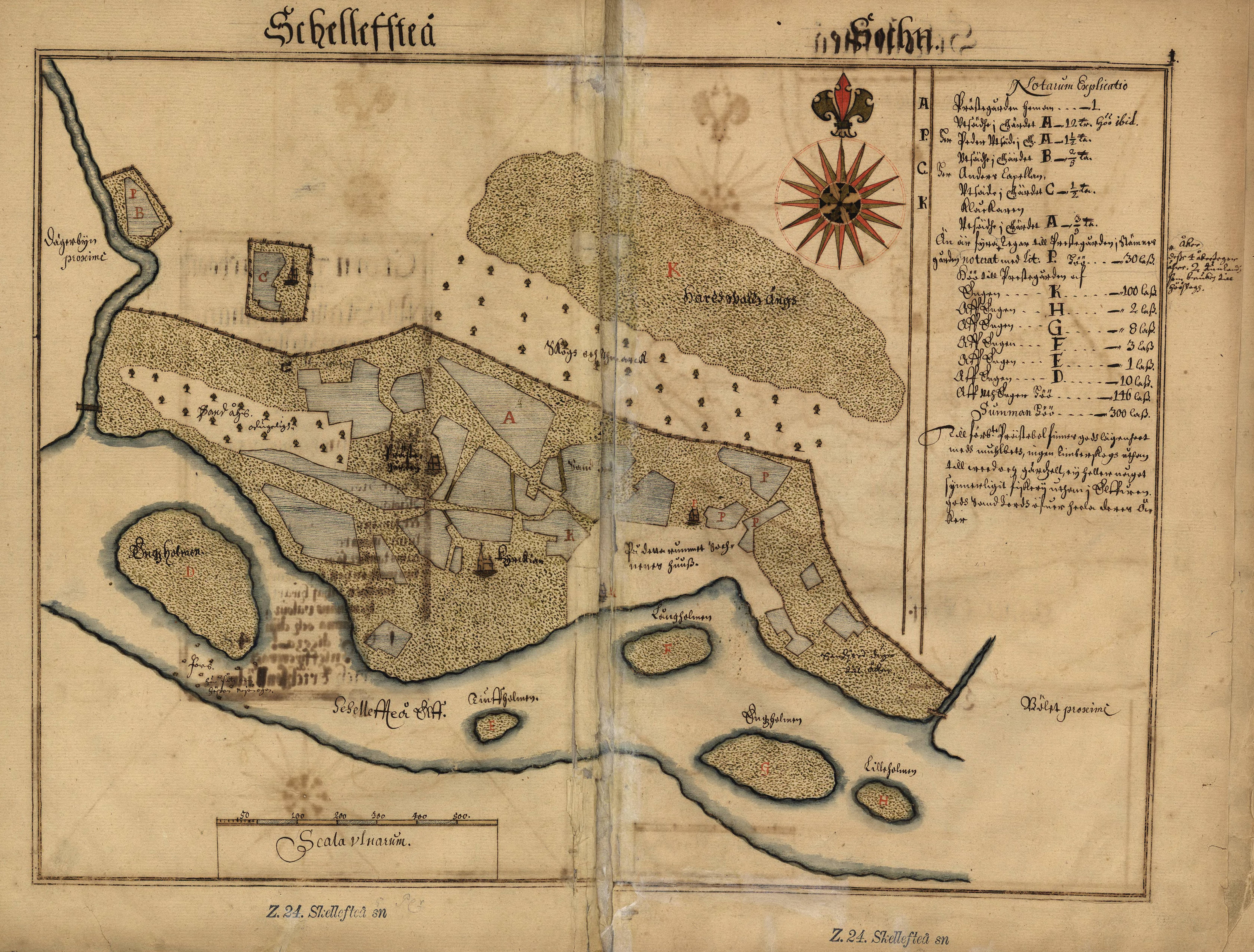 Map of Skellefteå 1648